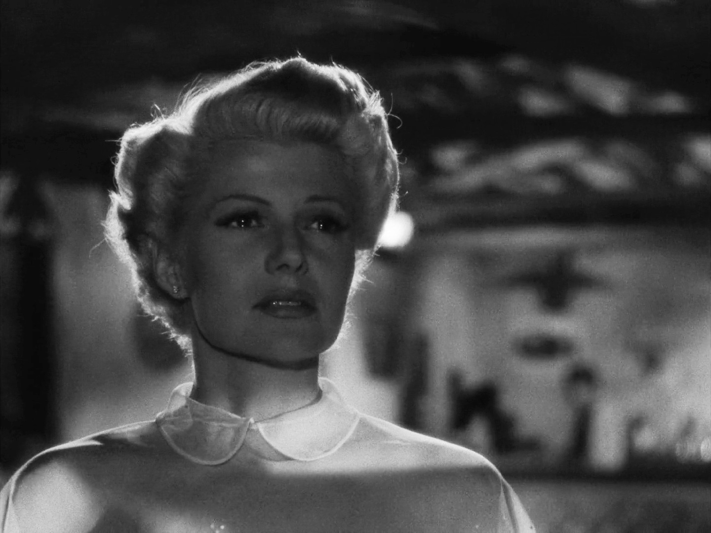 Screenshot of Rita Hayworth as Elza Bannister in the trailer for the film The Lady from Shanghai